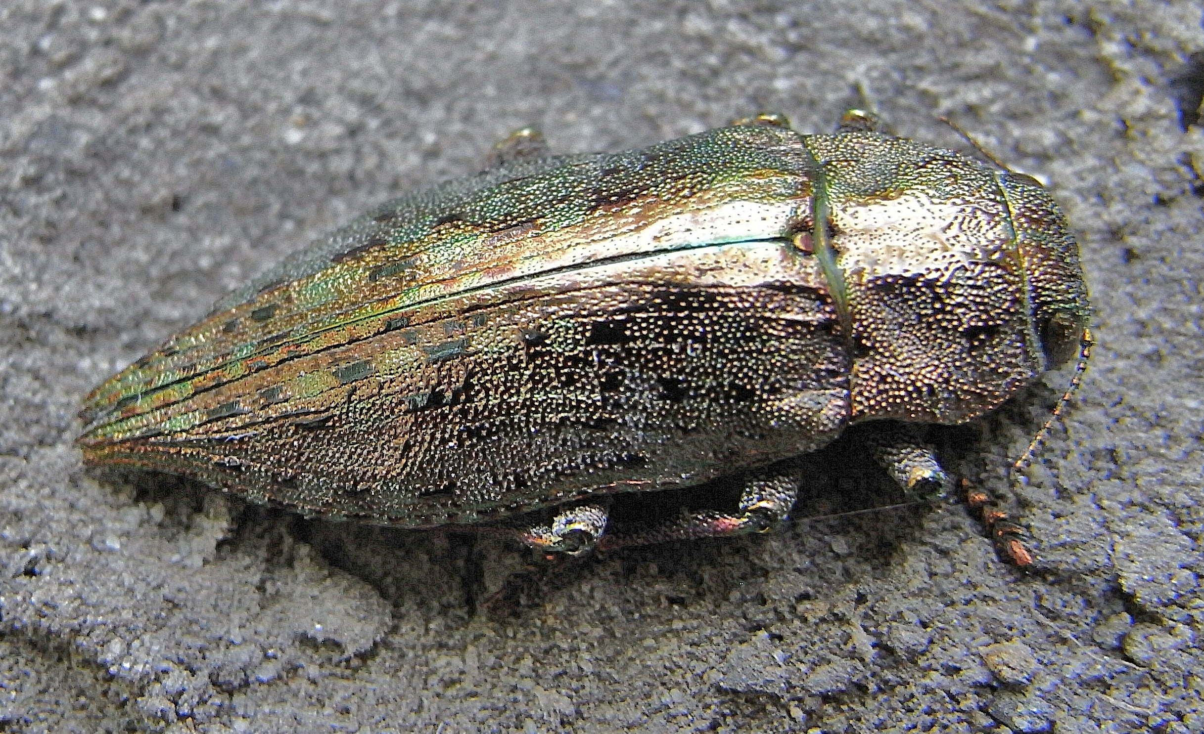 Dicerca berolinensis from Hungary, Vertes-mountains at 2010-07-10 Ricoh R8